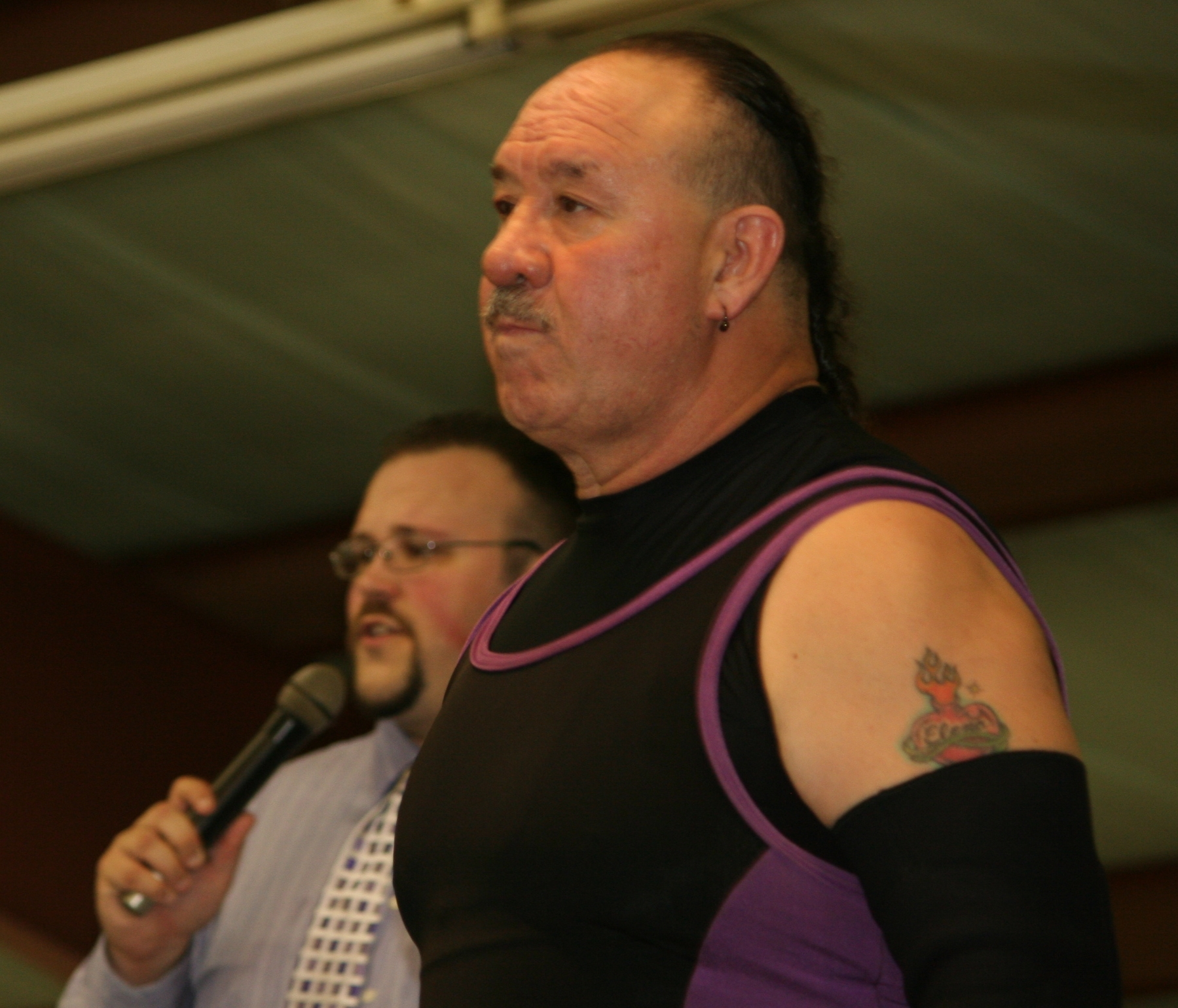 Manny Fernandez at TSW Union in South Carolia in September 2013.